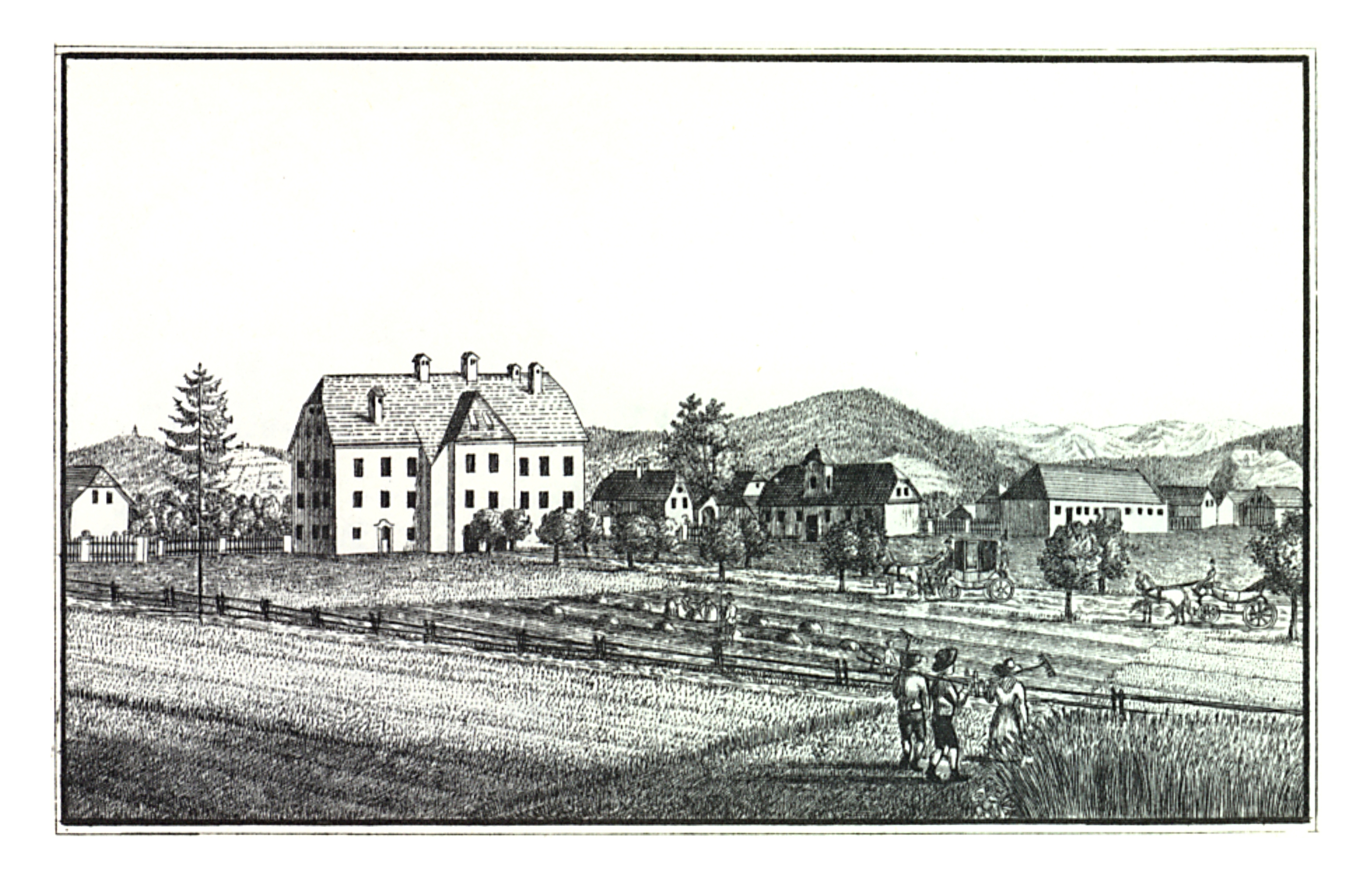 J. F. Kaiser - lithographirte Ansichten der Steyermärkischen Städte, Märkte und Schlösser, Graz 1824-1833 Joseph Franz Kaiser (1786–1859) Alternative names J. F. KaiserDescriptionAustrian printer and editorDate of birth/death 11 March 1786 19 September 1859Location of birth/death Graz (Styria) GrazAuthority control : Q1499963 VIAF: 30629353 ISNI: 0000 0000 3083 0153 LCCN: n87141671 GND: 129880159 NLP: A24960305 WorldCat creator QS:P170,Q1499963 . Scanprojekt Community Projektbudget 2012 This scan or this PDF-file was created within the GLAM-project Bookscanning, supported by Wikimedia Germany and Wikimedia Austria as a part of the community-project to capture books, documents and pictures which are not eligible to copyright or for which the copyright has expired. This document describes or depicts an object which is located in Austria today. Send requests for uncompressed scans to Hubertl. This work is in the public domain in its country of origin and other countries and areas where the copyright term is the author's life plus 100 years or less. You must also include a United States public domain tag to indicate why this work is in the public domain in the United States. This file has been identified as being free of known restrictions under copyright law, including all related and neighboring rights.